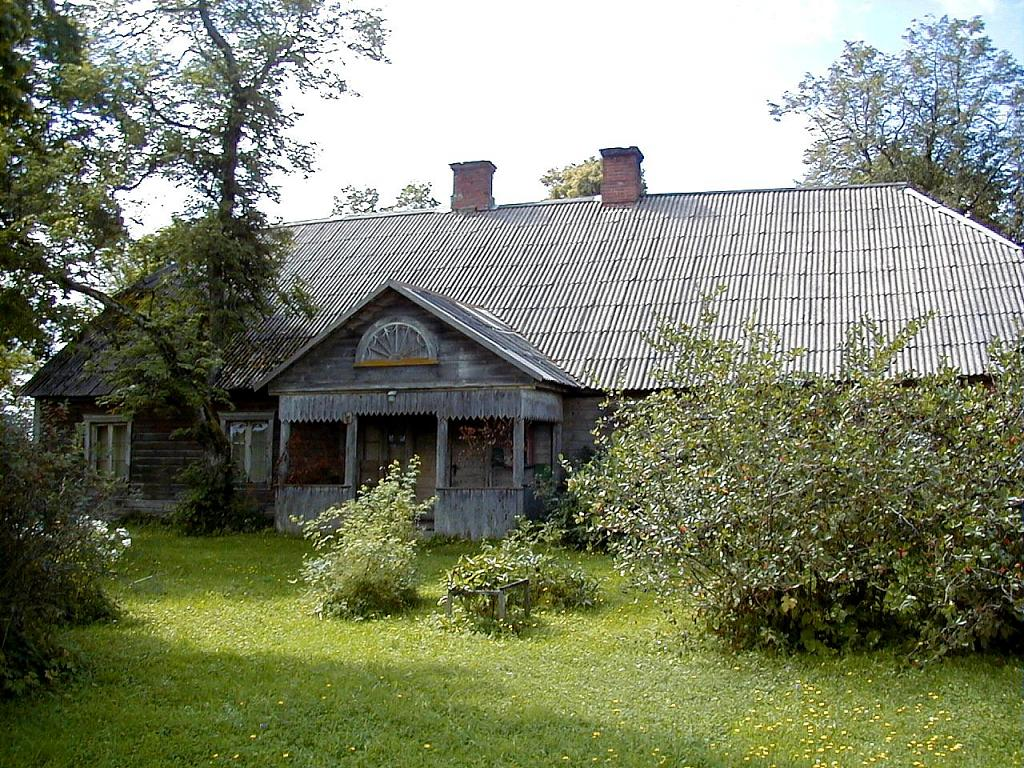 Brinkenhof manor in Ineši parish